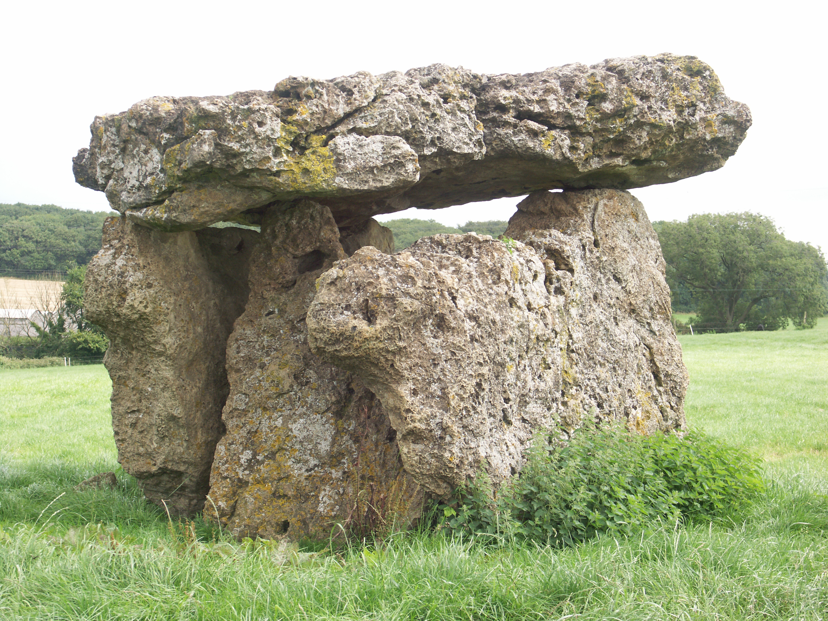 Siambr Gladdu Lythian Sant o dde gorllewin